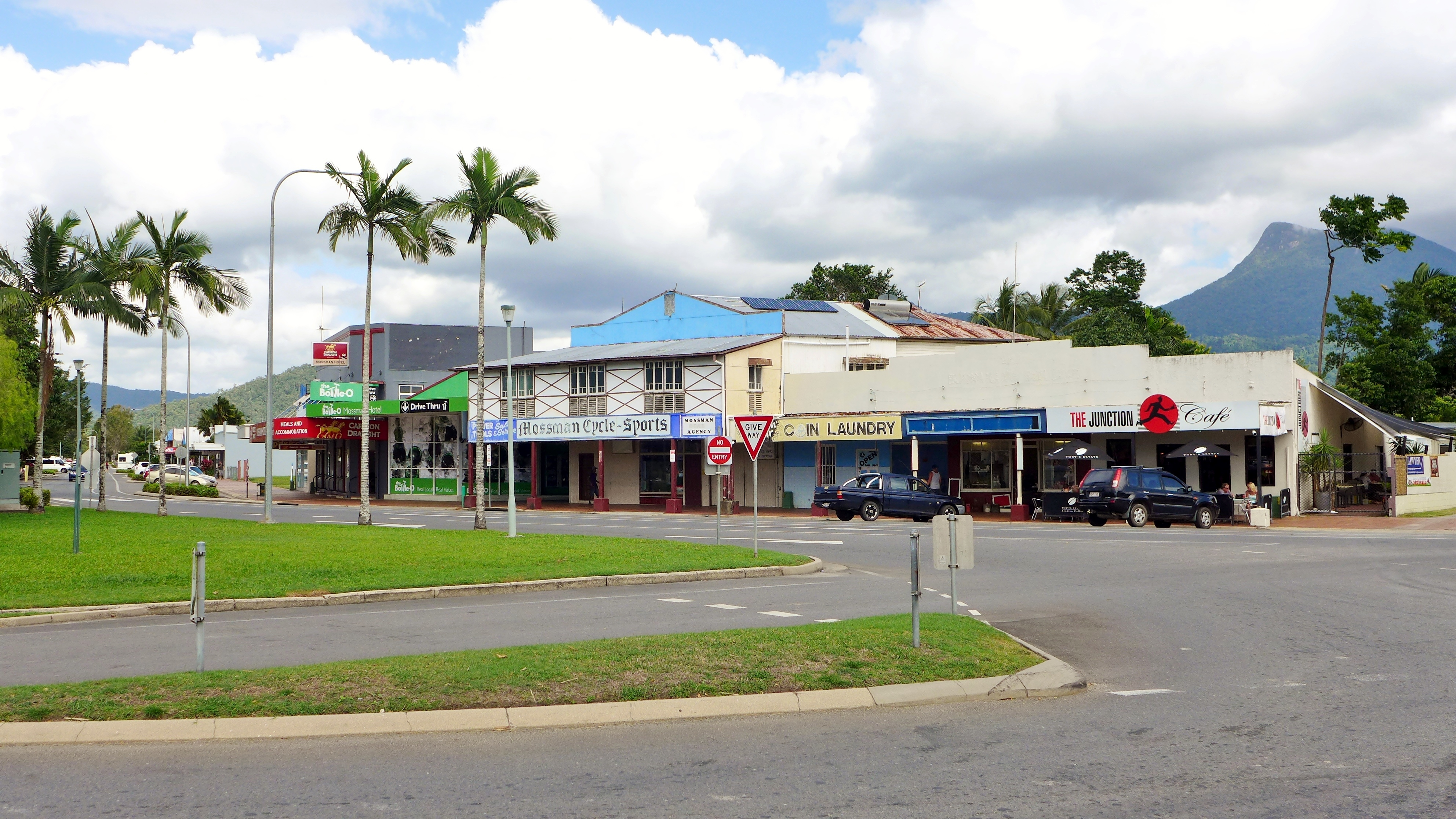 View of Captain Cook Highway, Mossman, Far North Queensland, Australia.